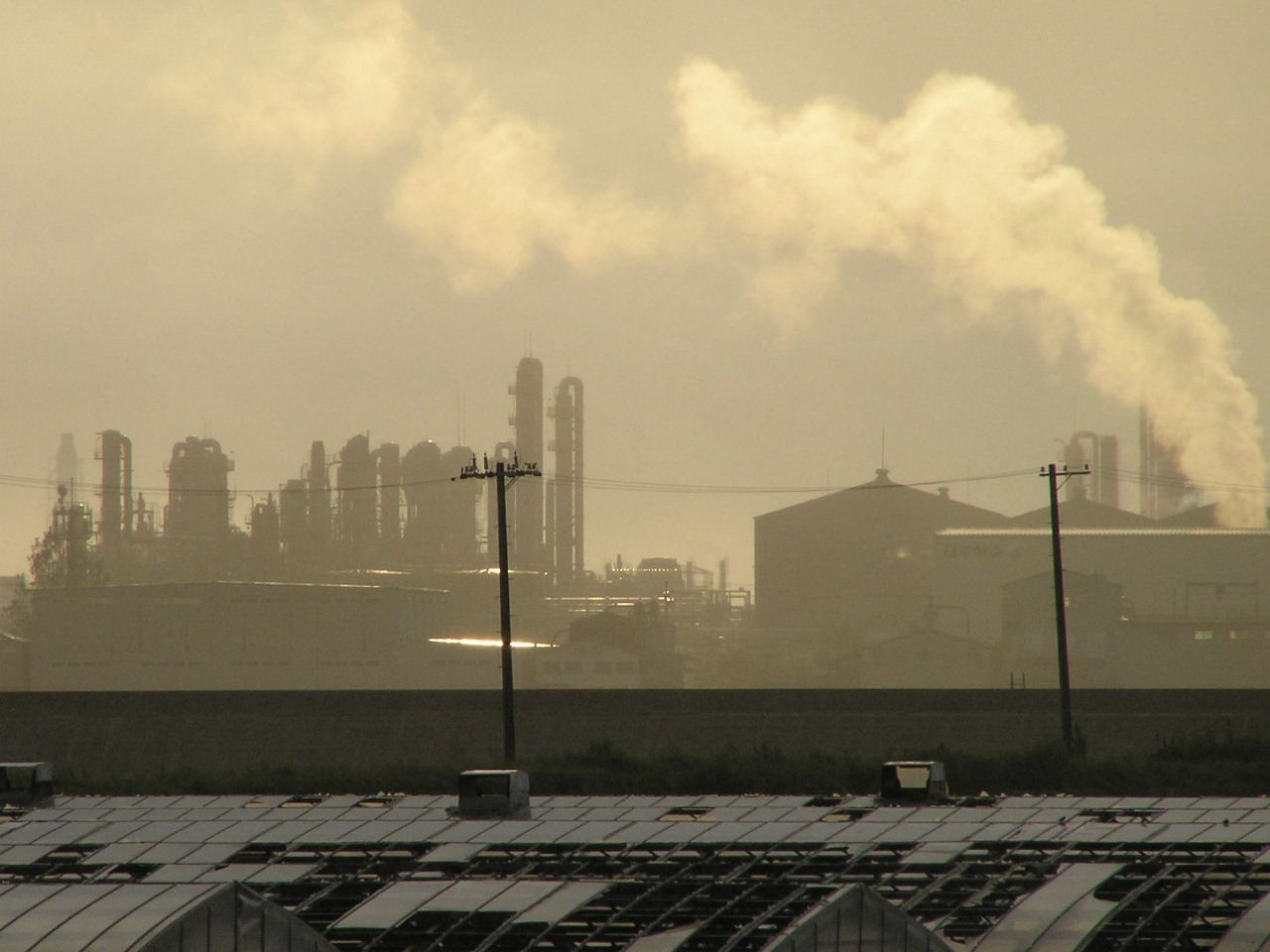 Harima coastal industrial zone 2.jpg ～photo by Autumn Snake 【おぉたむ すねィく探検隊】写真・きのこ部門 担当 勅使河原 賢明